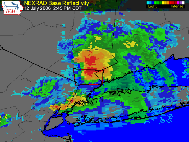 Radar image of the Supercell thunderstorm that spawned an F2 tornado in Westchester County, New York